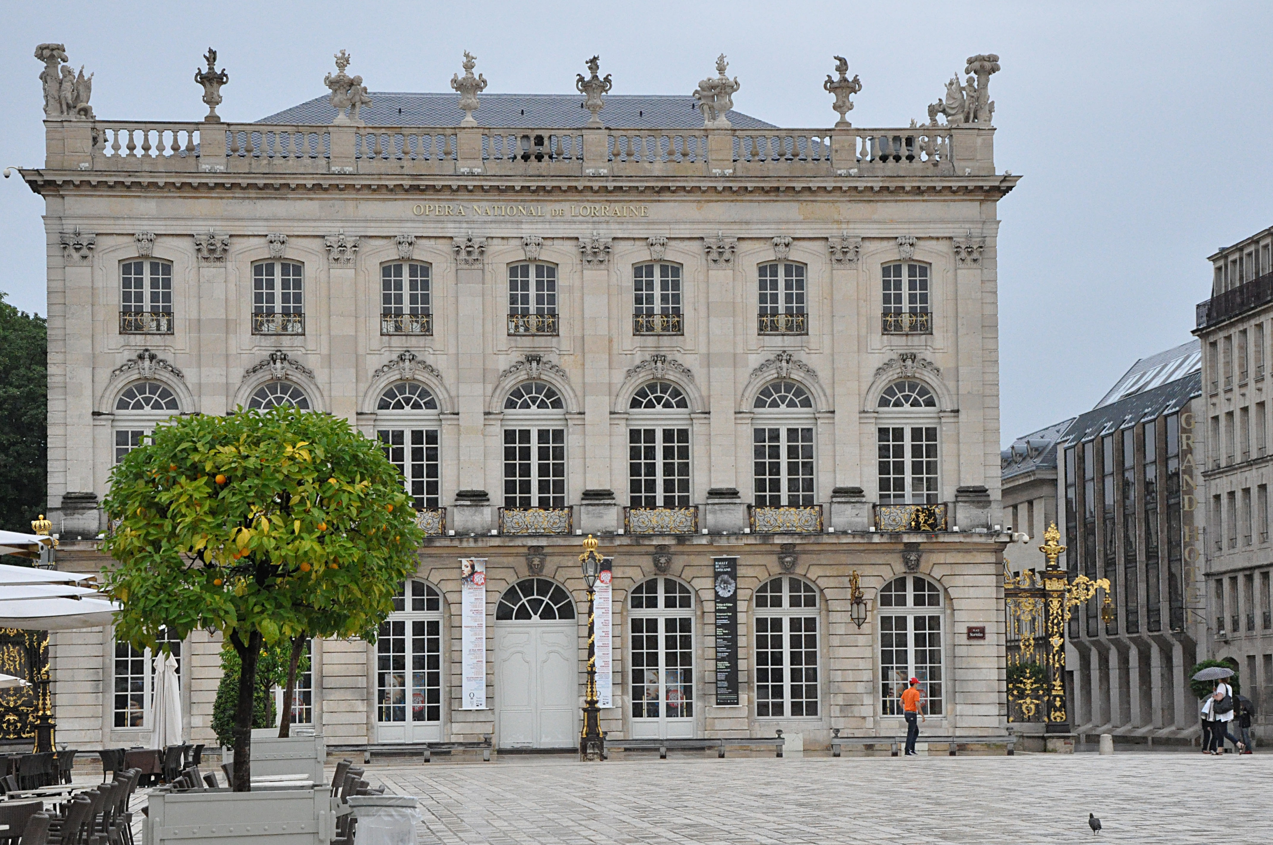 Opera of Nancy (France)